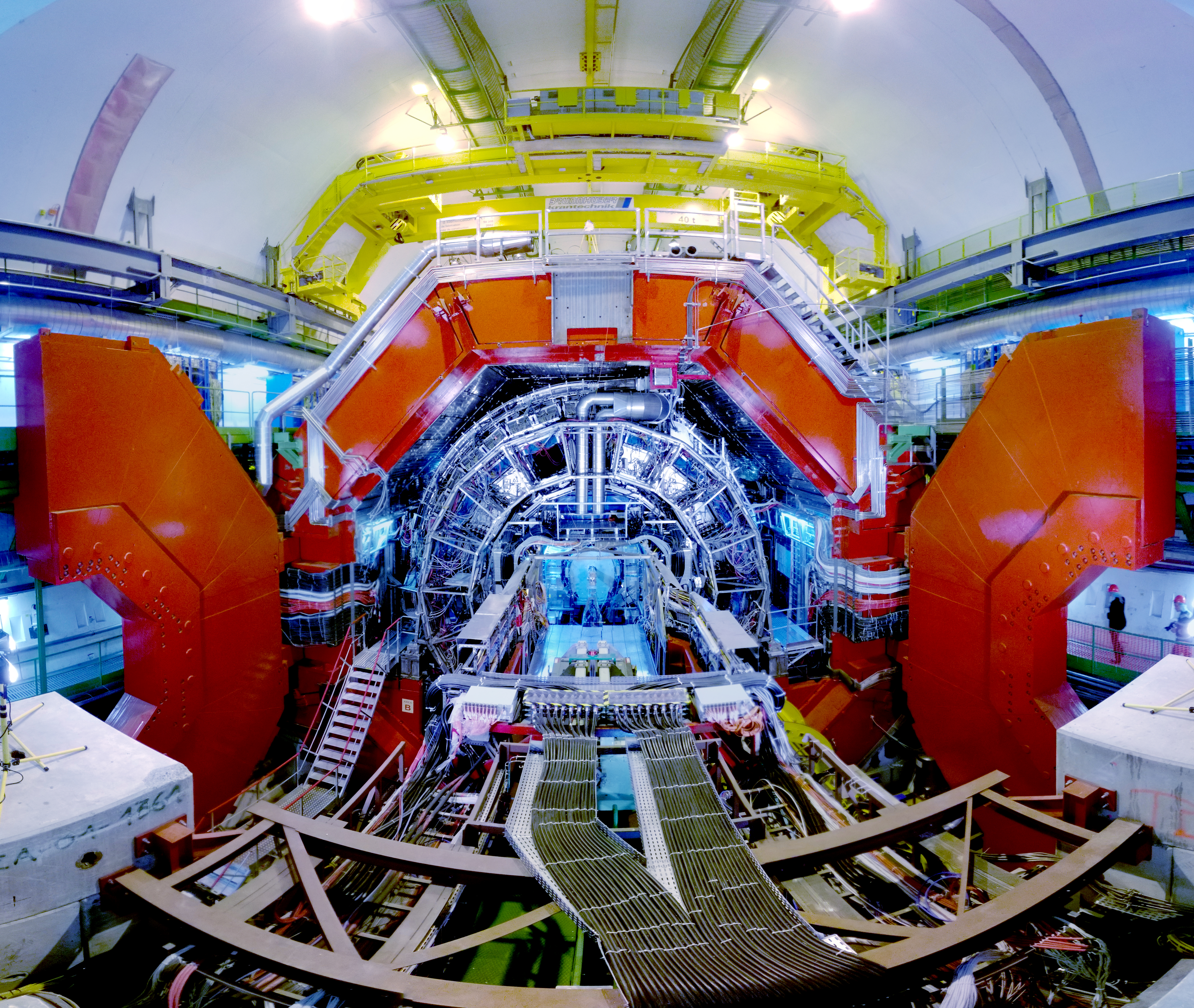 Picture of the particle detector from the ALICE Experiment at the CERN LHC.